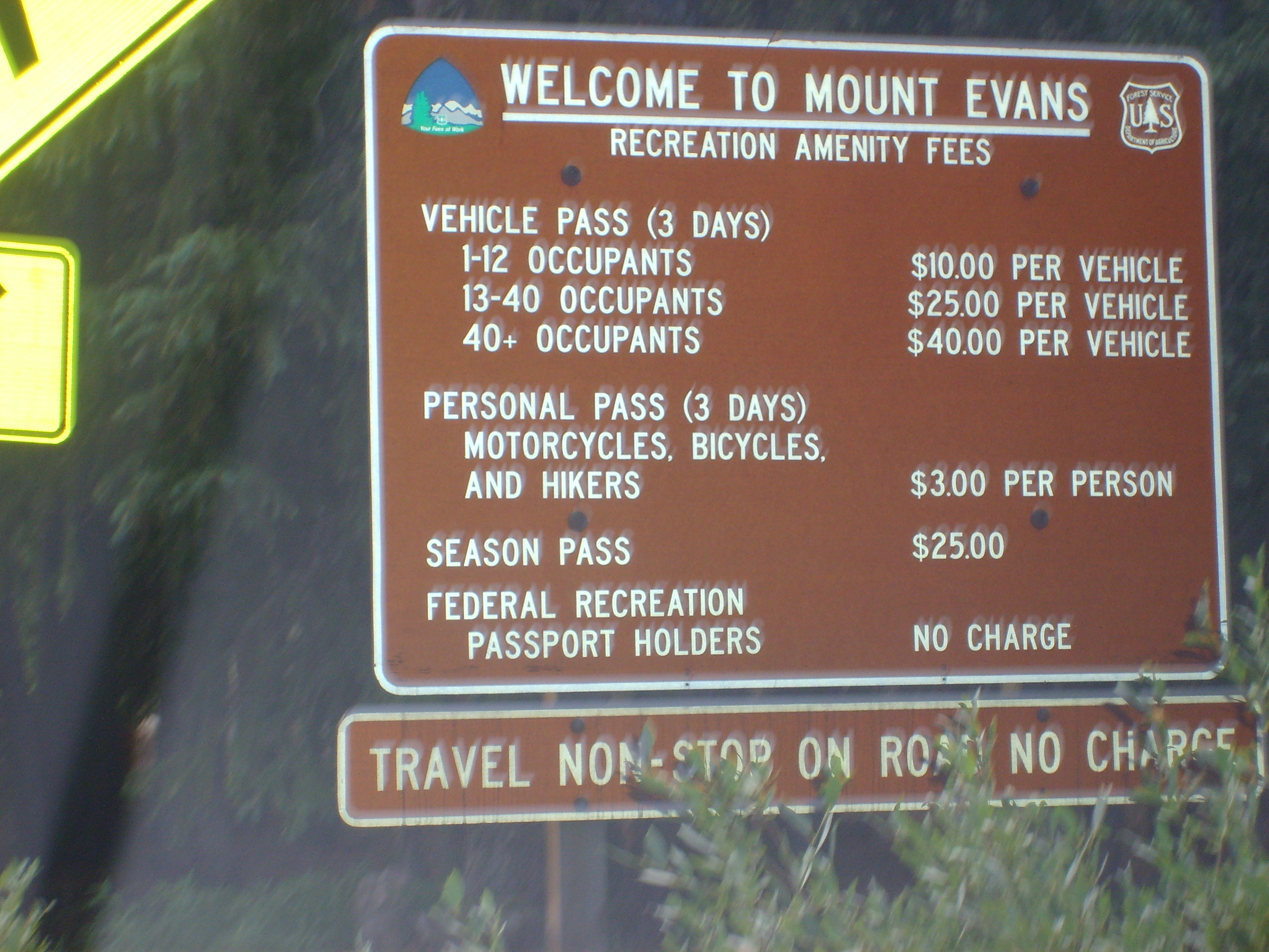 Mount Evans, the highest paved road in the United States